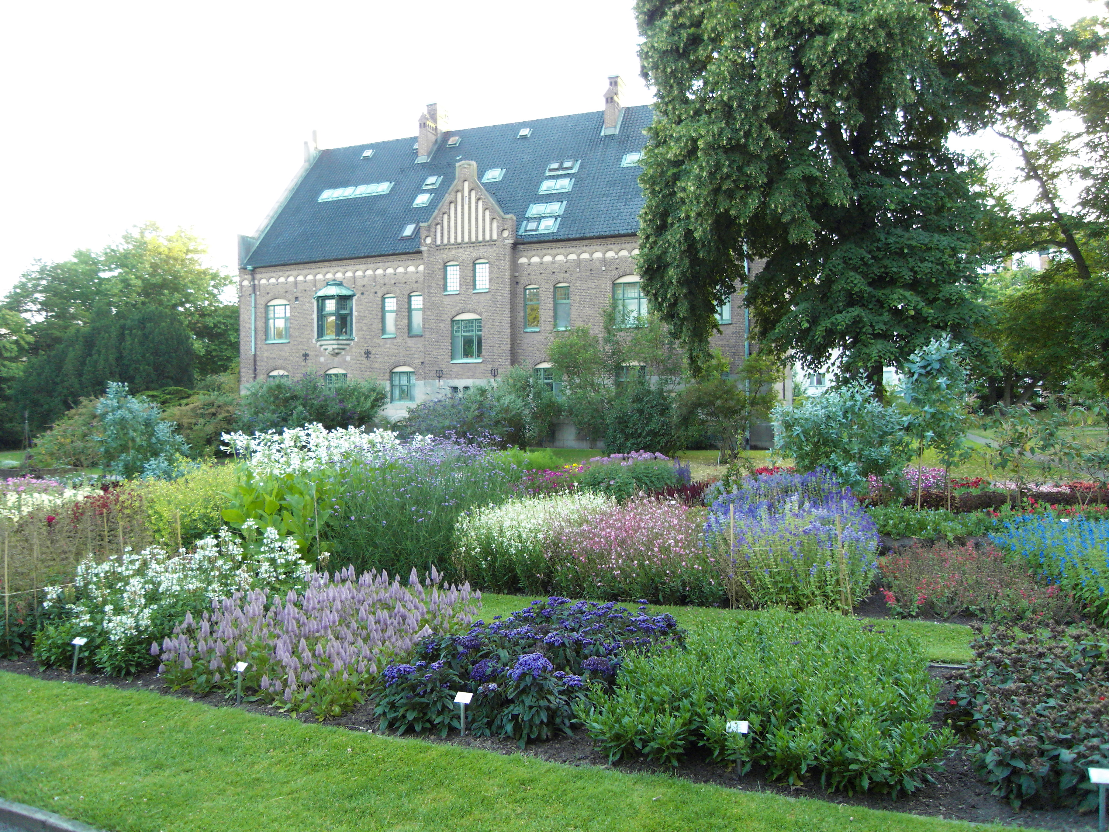 Several various flowers and plants in the Botanical Garden in the city of Lund.